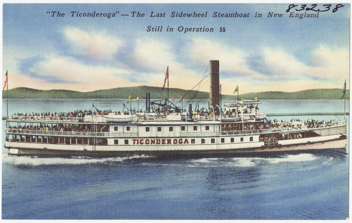 Title: "The Ticonderoga" -- the last sidewheel steamboat in New England still in operation File name: 06_10_002163 Created/published: Pub. by Riverside Paper Co., Burlington, Vt.; "Tichnor Quality Views"; reg, U.S.Pat.Off.; made only by Tichnor Bros., Inc., Boston, Mass. Date issued: between circa 1930 and circa 1945 Physical description: 1 print (postcard) : linen texture, color ; 3 1/2 × 5 1/2 in. Genre: Postcards Subjects: Ships; Lakes & ponds Collection: The Tichnor Brothers Collection Location: Boston Public Library, Print Department Rights: No known restrictions